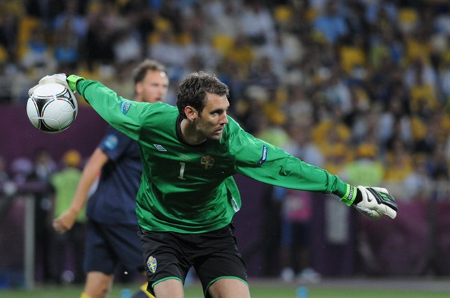 UEFA Euro 2012 match between Ukraine and Sweden that took place in Kiev. Final result was 2:1 (2xShevchenko - Ibrahimović)